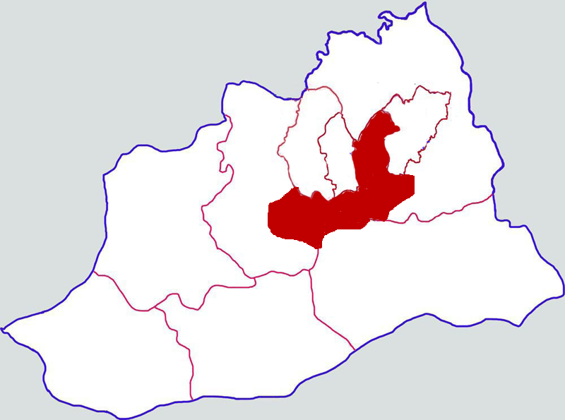 Location of Shanyang district in Jiaozuo city, China